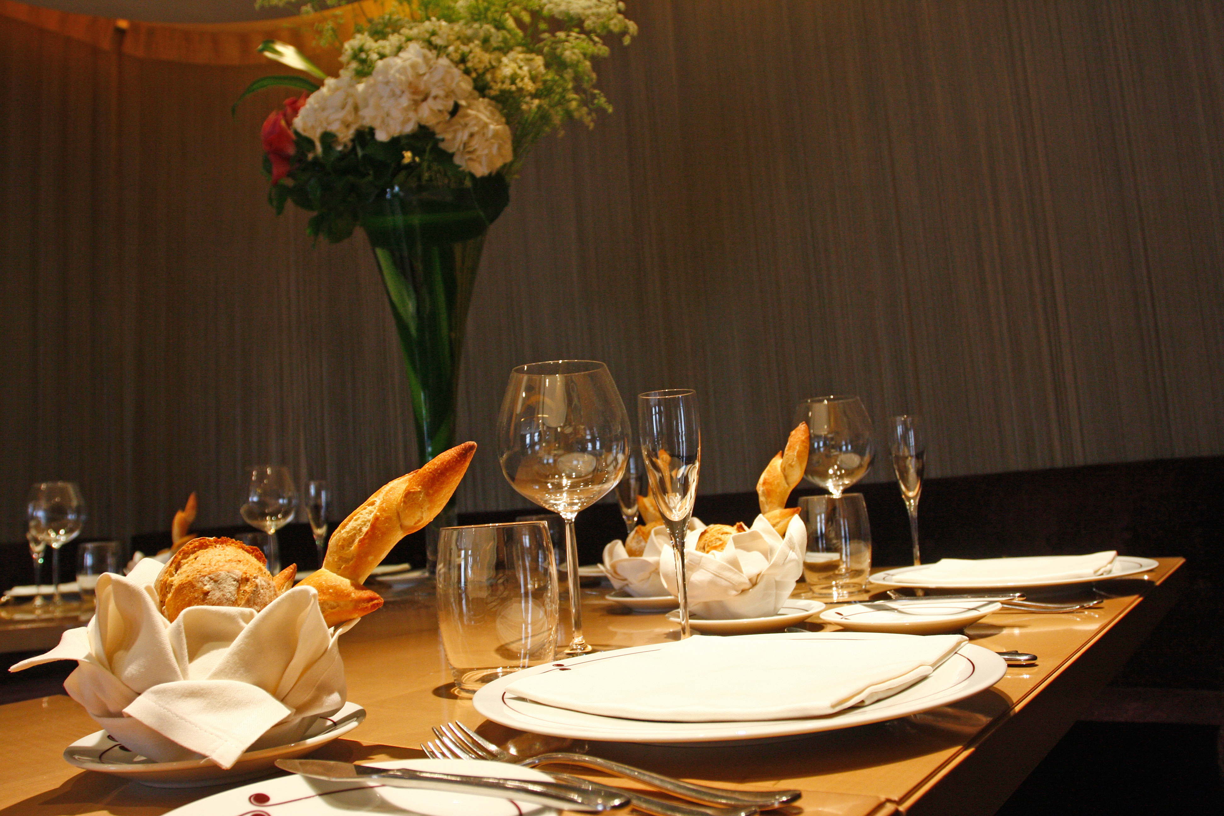 Restaurant SENSING